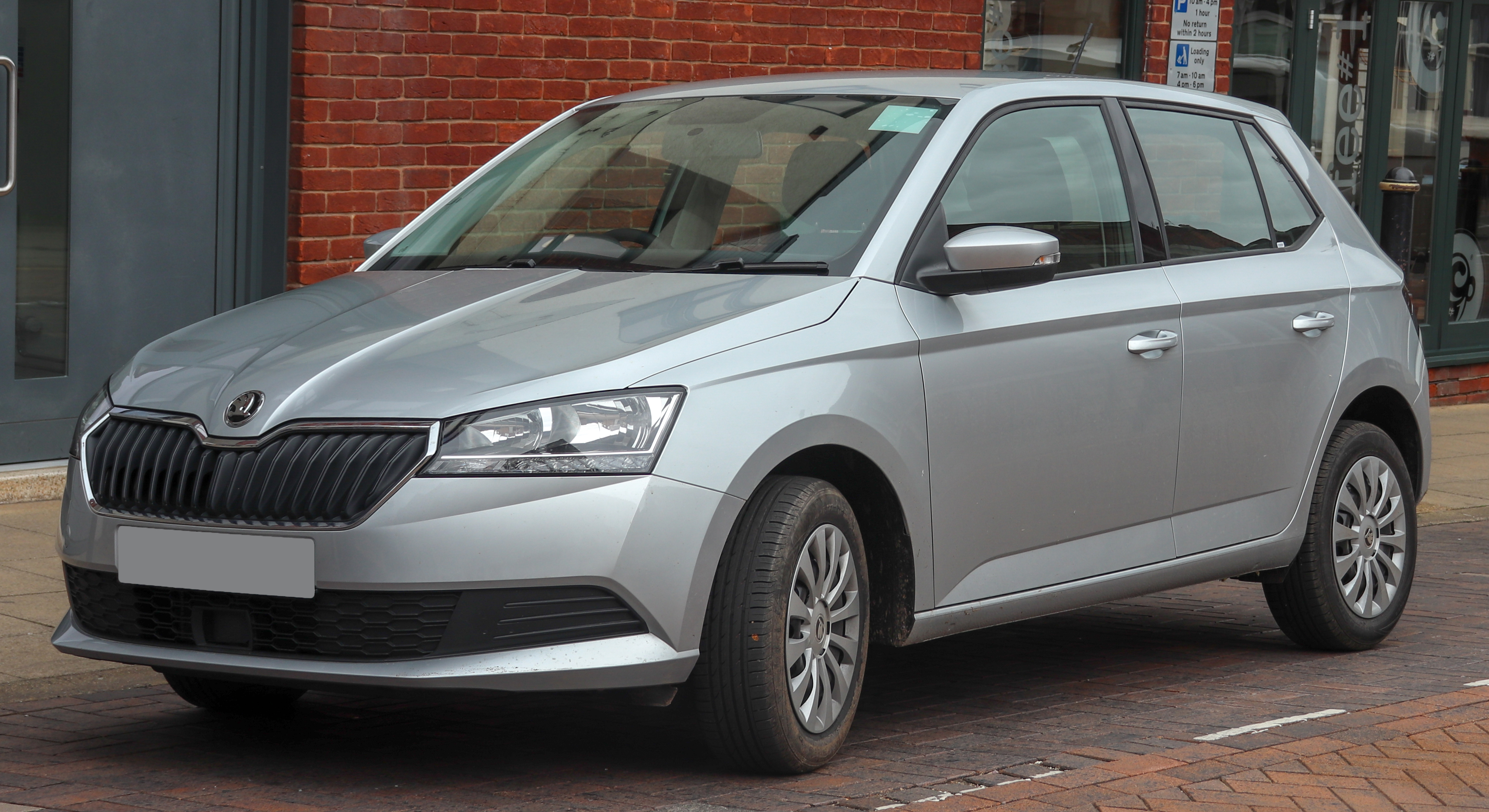 2019 Skoda Fabia S (Base model) 1.0 Front Taken in Warwick